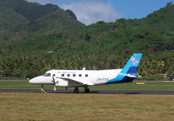 Photo of an Air Rarotonga Embraer EMB 110 (ZK-FTS), Rarotonga.